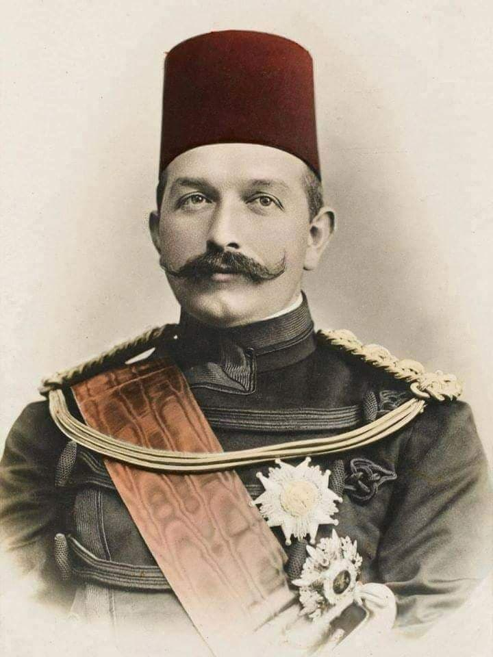 Khedive Abbas Hilmi II.